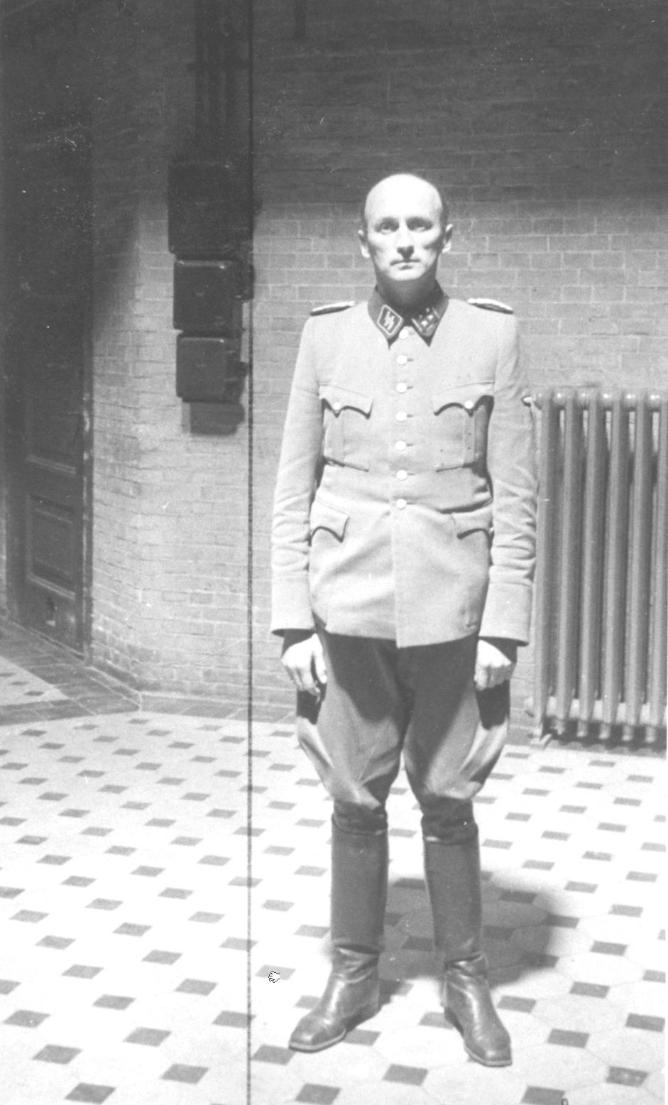 Willy Lages (1901-1971), German war criminal, SS-Sturmbannführer, head of the Sicherheitsdienst (SD) in Amsterdam (The Netherlands). Date unknown.